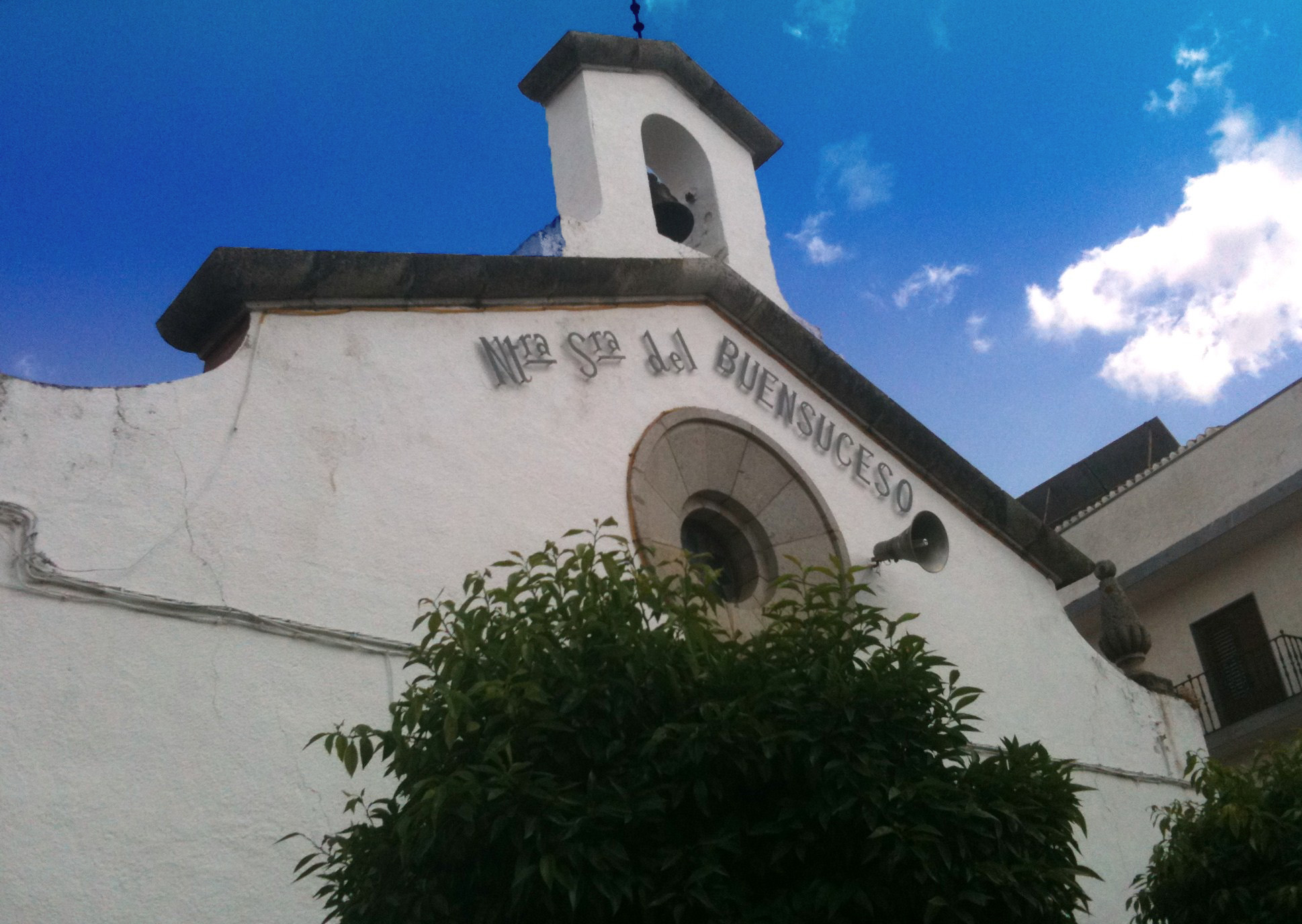 Hermitage of Ntra Señora del Buensuceso in Castuera (Badajoz, Spain)